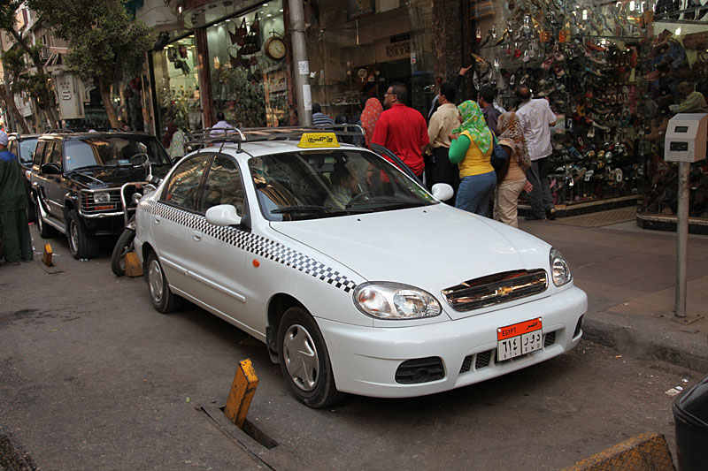 New white taxicab in Cairo, Egypt